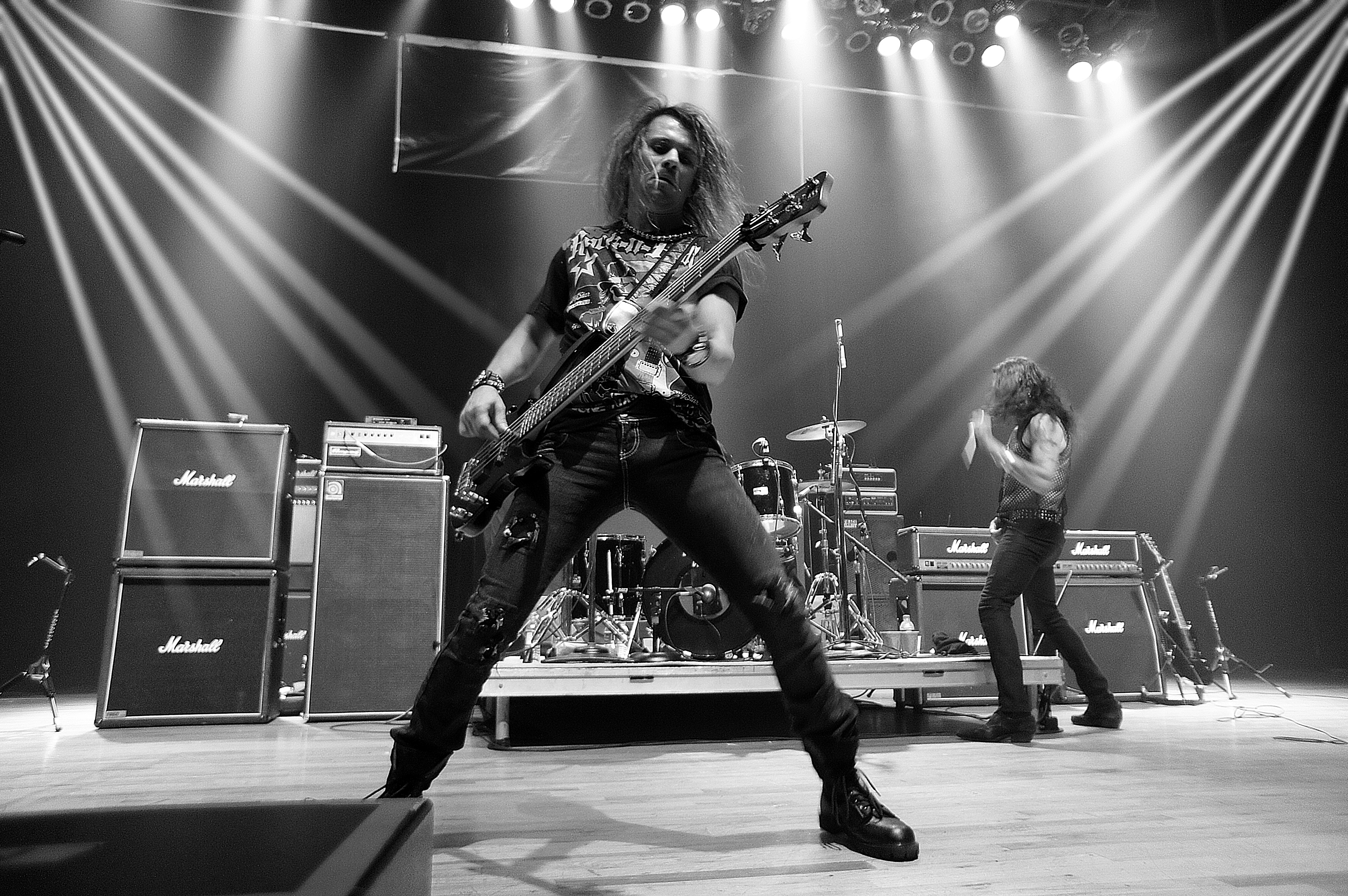 Dario Seixas playing in a concert with Stephen Pearcy of RATT.